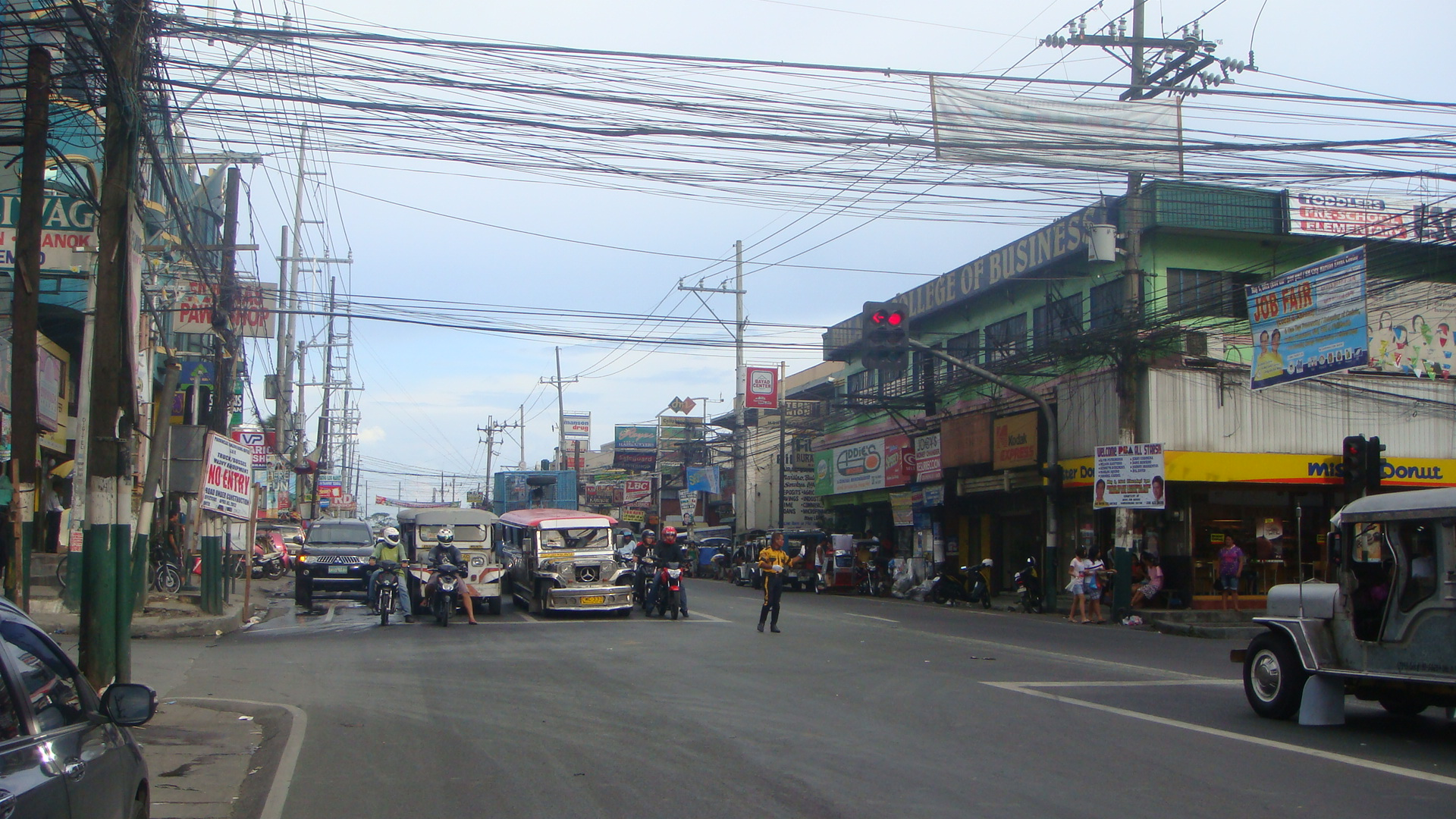 MacArthur Hiway, Marilao, Bulacan